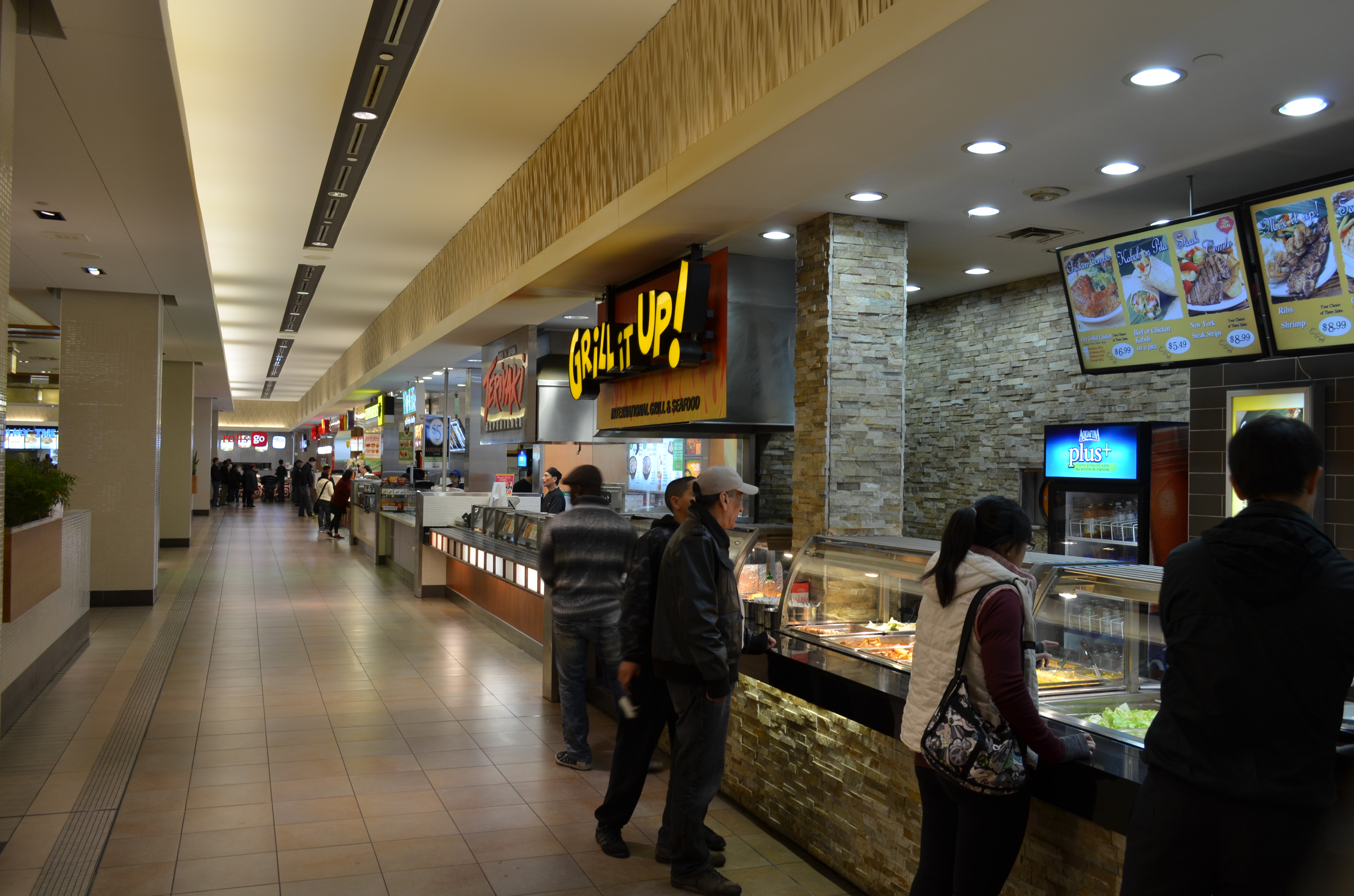 Food court in Fairview Mall